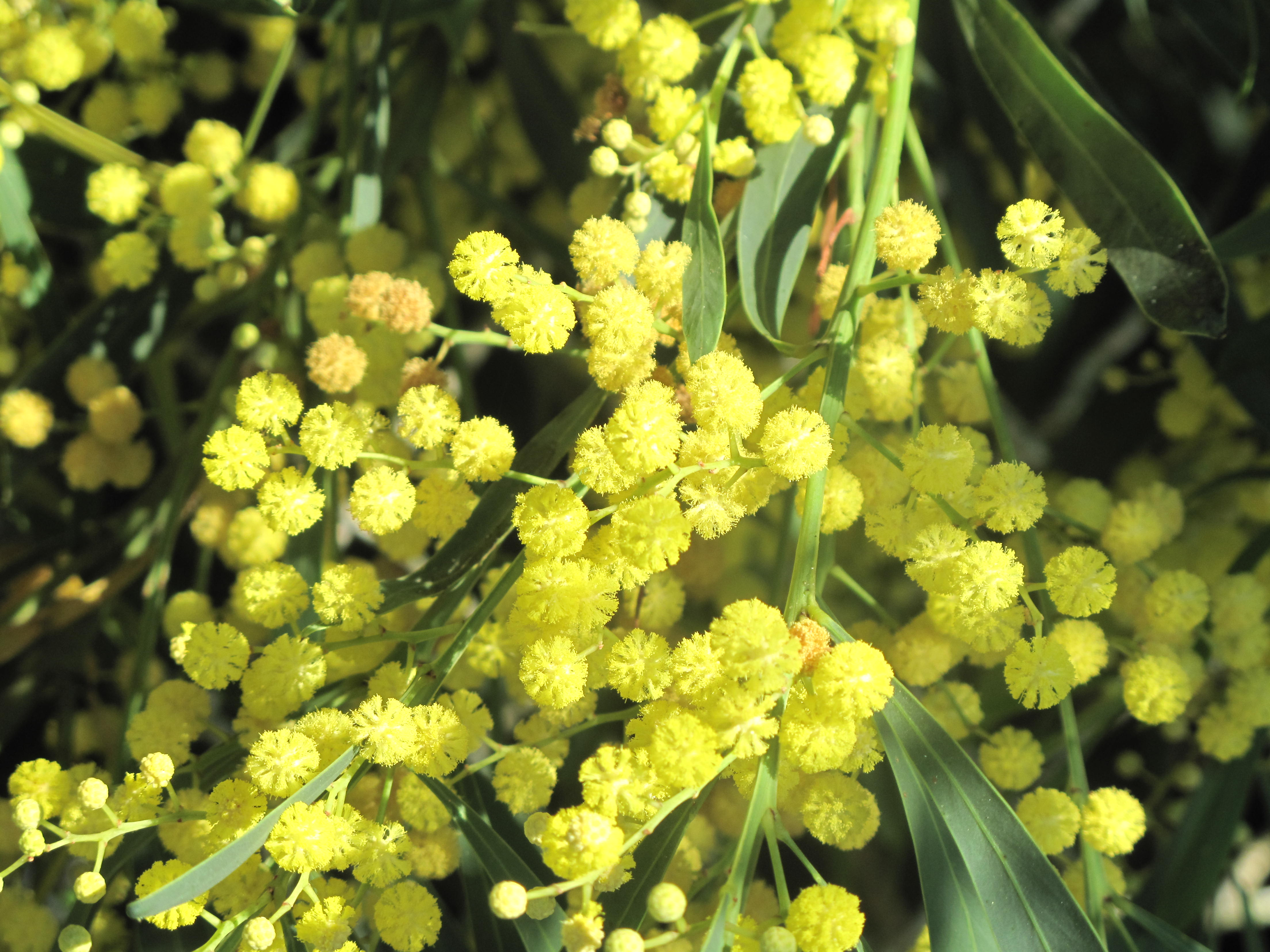 Close view of Acacia retinodes (in French Four seasons mimosa) in august in the south-west of France (Capbreton, Landes)